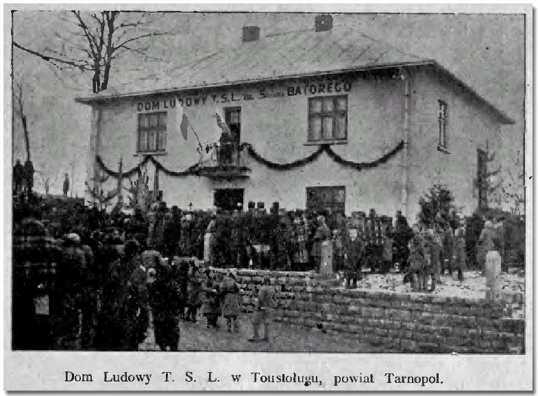 People's House in the village of Tovstolug. Photo in the newspaper "Wschód" №9 April 30, 1936